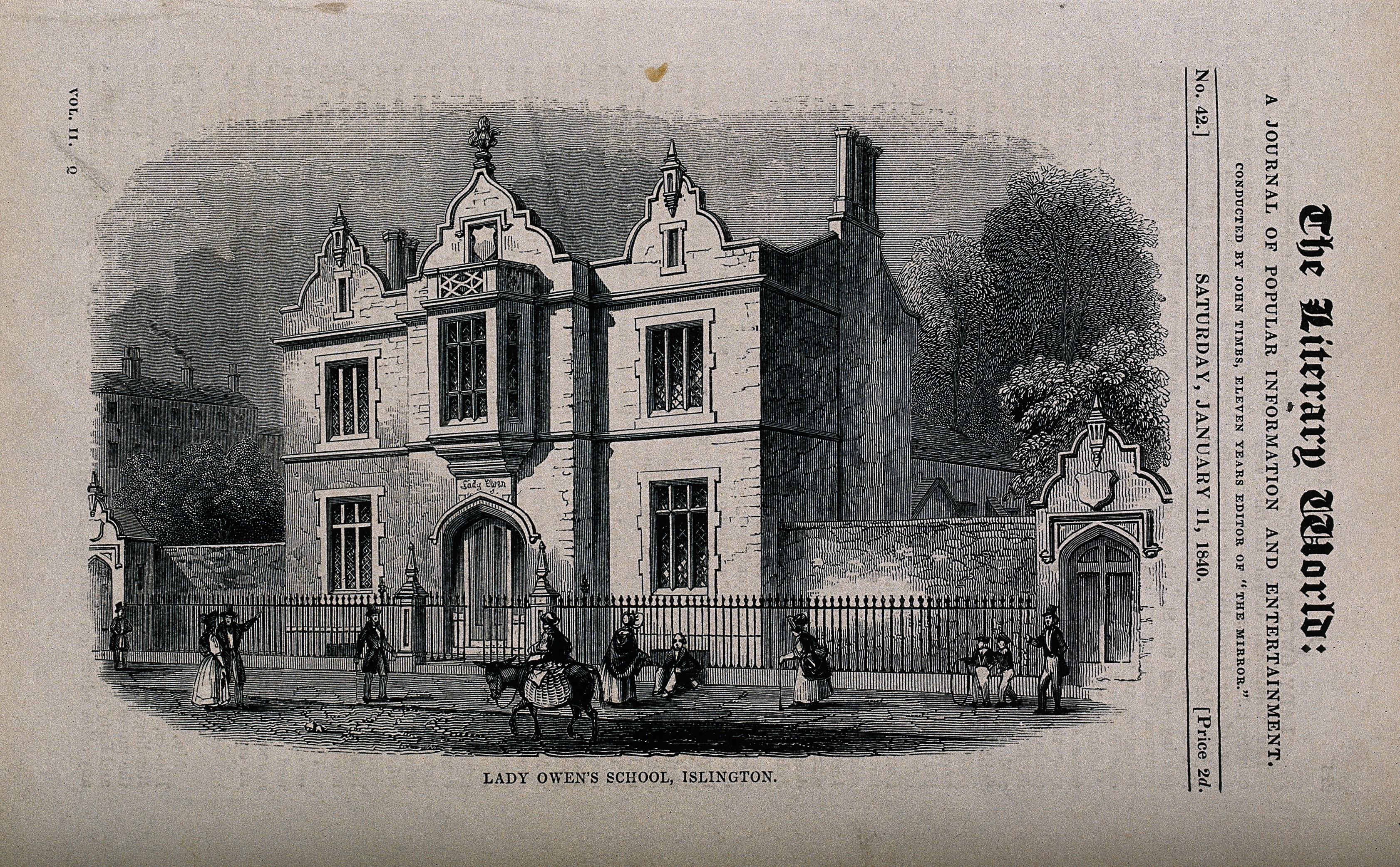 Lady Owen's School, Islington. Wood engraving, 1840. Iconographic Collections Keywords: George Tattershall; Alice Owen